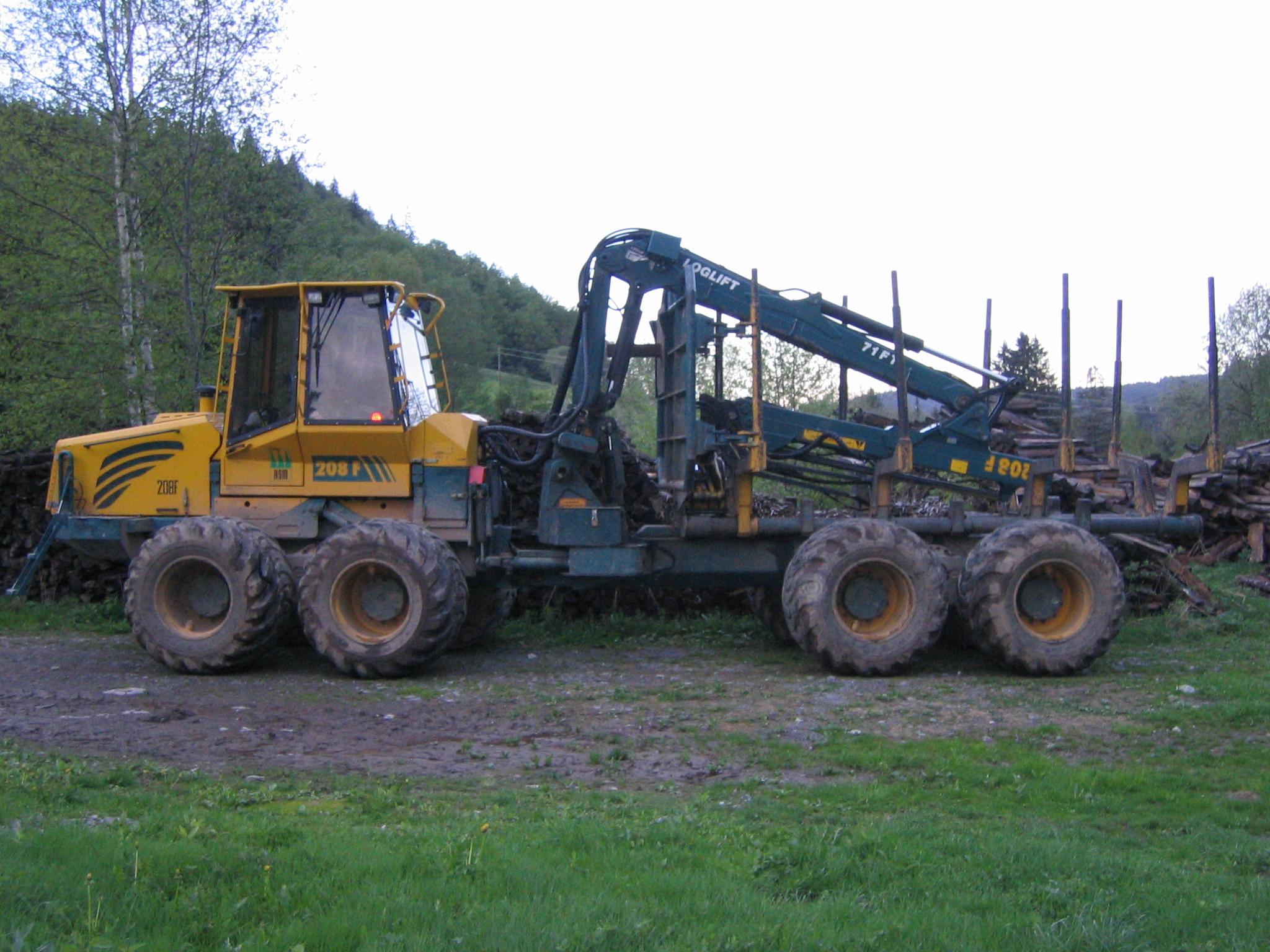 Forwarder 208 F manufactured by Hohenloher Spezial-Maschinen